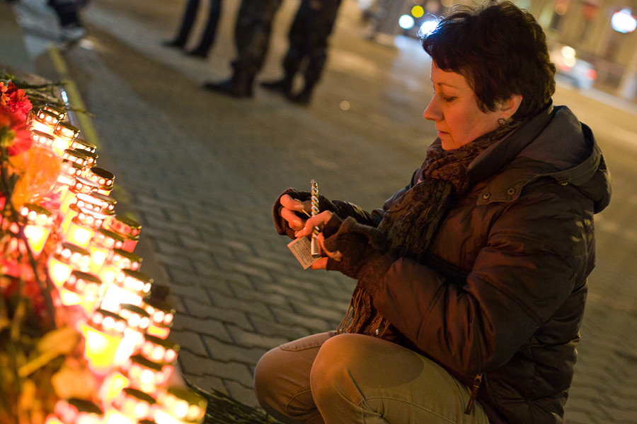 People commemorate the victims of 2011 deadly bomb blast in Minsk metro.